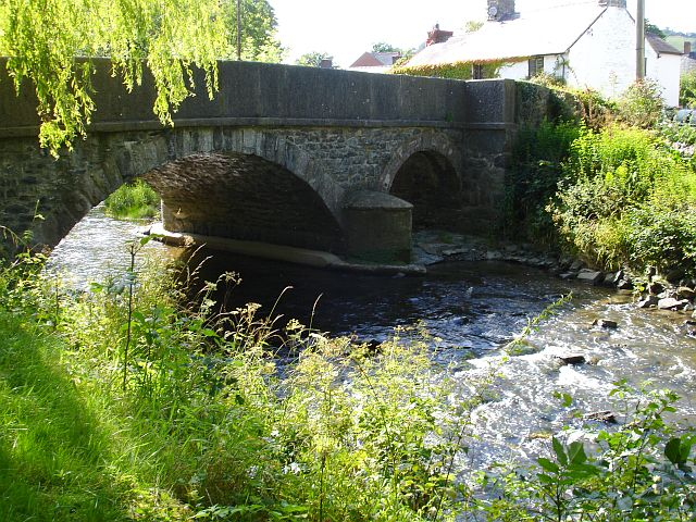 Cain bridge, Llanfechain The bland concrete parapet, which is all you see as you cross the bridge, disguises a rather pretty stone structure over Afon Cain.